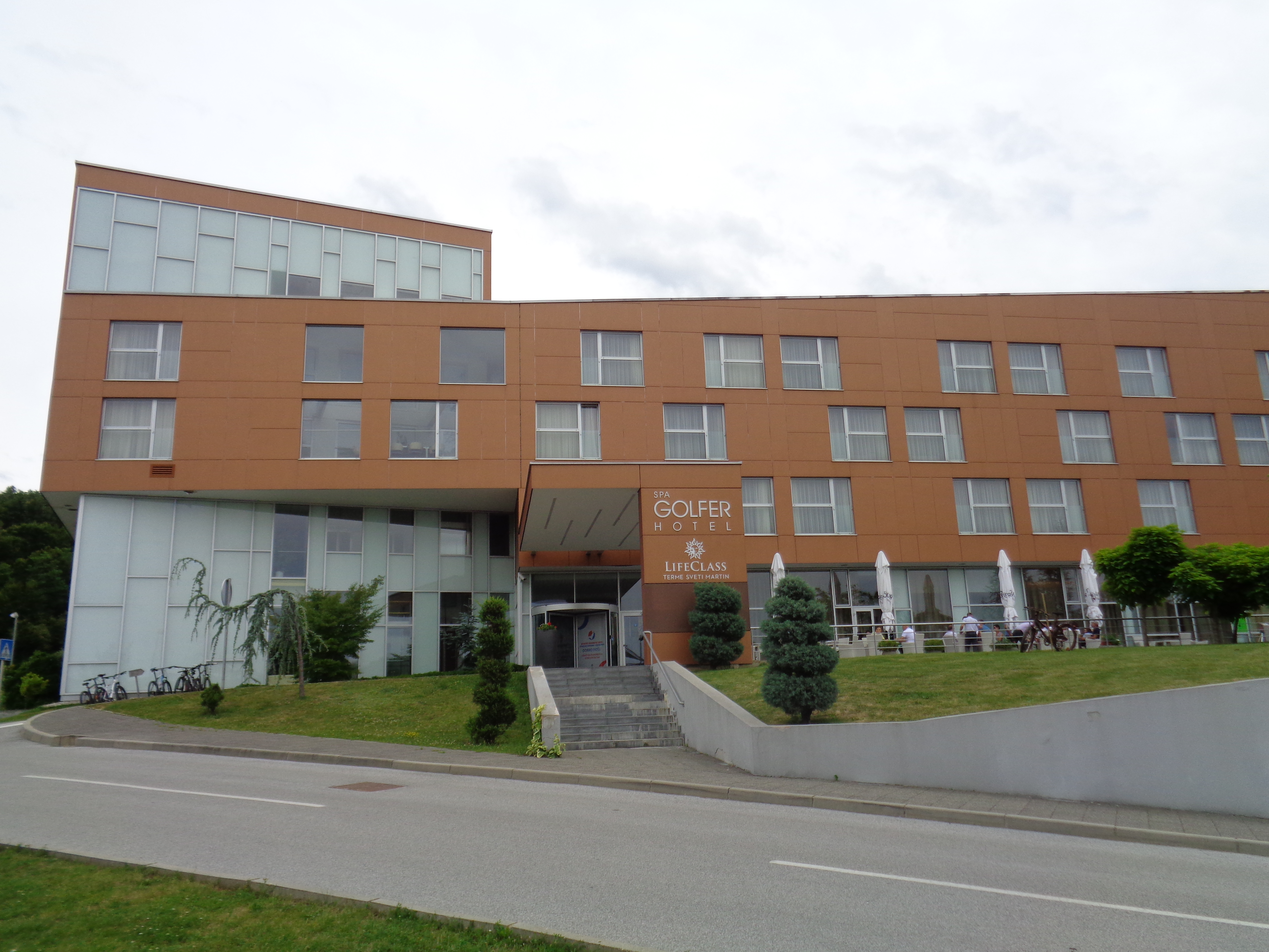 "Golfer" Hotel in Vučkovec, Toplice Sveti Martin, Međimurje County, Croatia - entrance